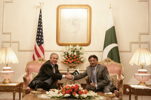 President George W. Bush is welcomed by Pakistan President Pervez Musharraf to Aiwan-e-Sadr in Islamabad, Pakistan, Saturday, March 4, 2006.